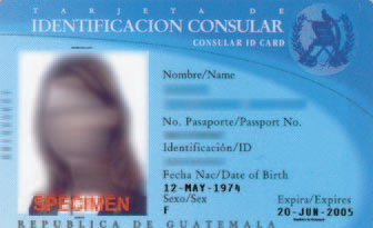 Specimen of the Guatemalan CID card (front side) A.K.A. Tarjeta de Identificación Consular Guatemalteca